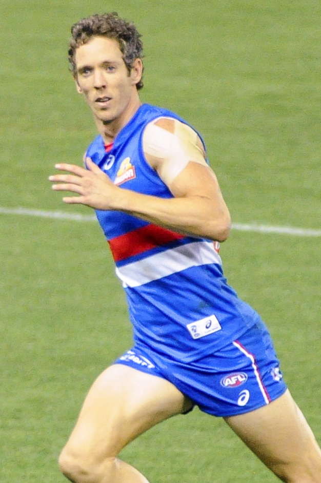 Robert Murphy during the AFL round two match between the Western Bulldogs and Sydney on 31 March 2017 at the Etihad Stadium in Melbourne, Victoria.